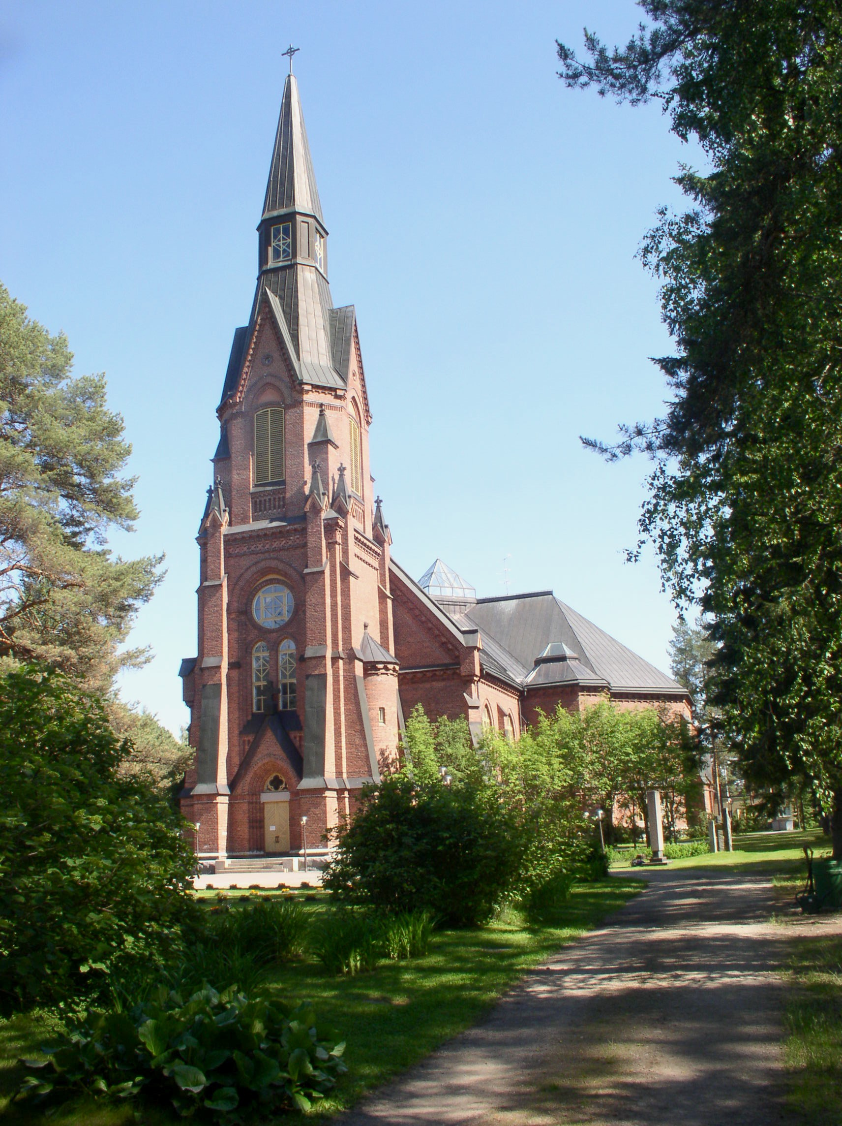 Rantasalmi church in Rantasalmi, Finland. The church was designed by Josef Stenbäck and completed in 1904. The church burned in 1984. The walls were spared, and the church was rebuilt according to the plans by Carl-Johan Slotte, and completed in 1989.